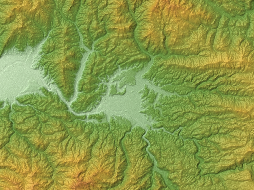 Hita Basin in Oita Prefecture, Kyushu, Japan.